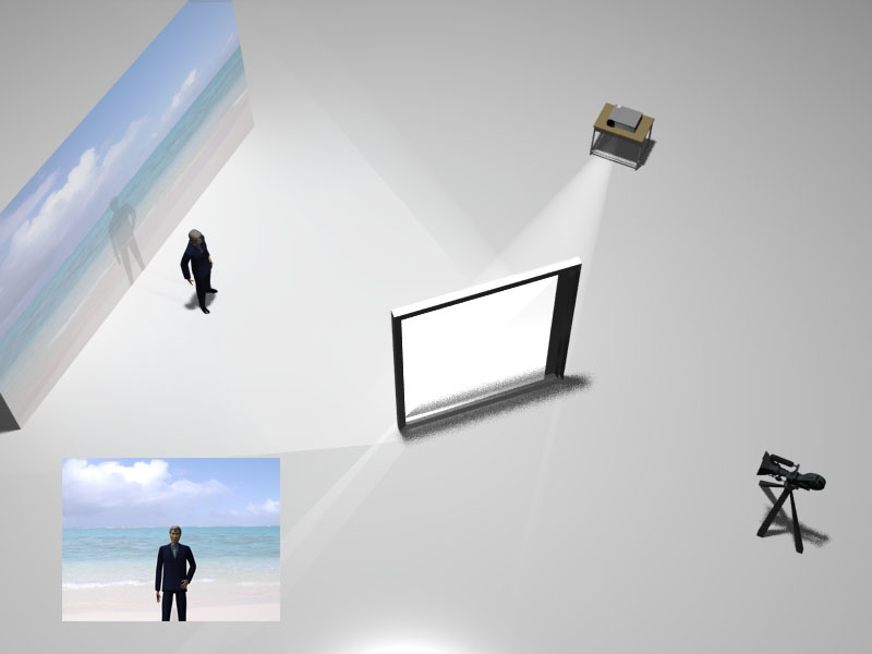 Figure of Front projection effect The half mirror placed in the center coincides an optic axis.